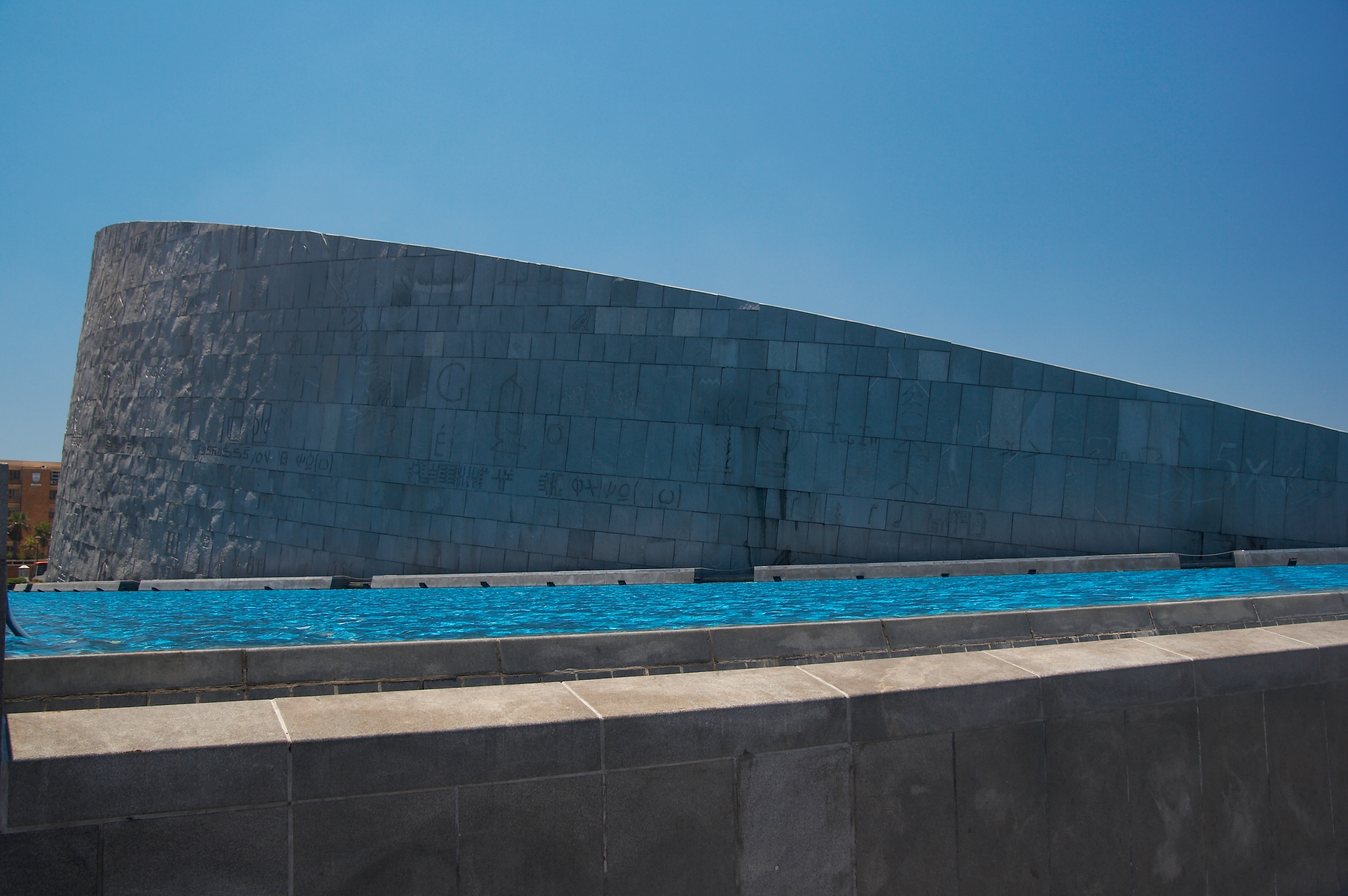 Bibliotheca Alexandrina, Egypt.